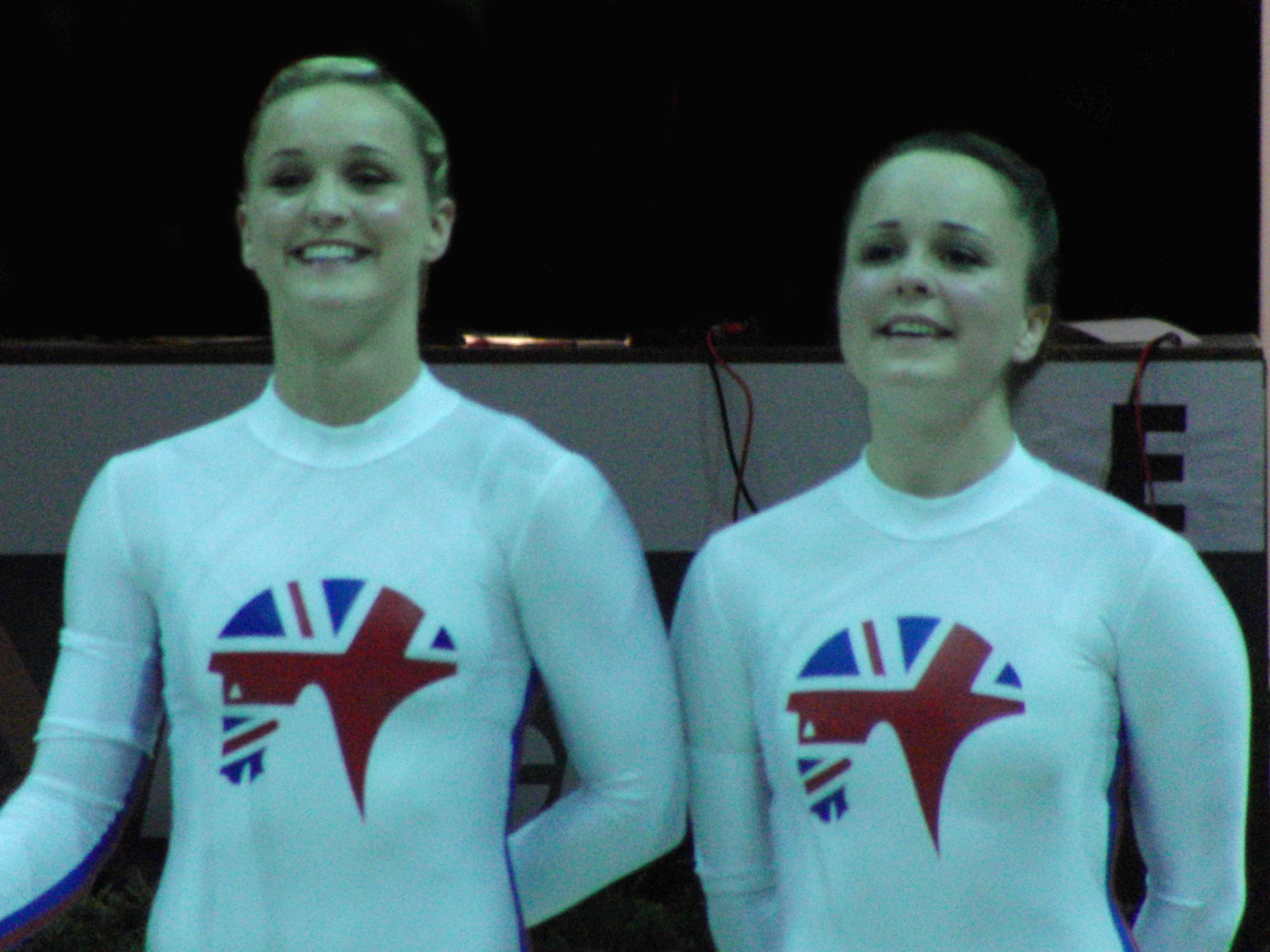 2014 FEI World Equestrian Games - Vaulting ind. Women Round 1 - Joanne and Hannah Eccles for United Kingdom